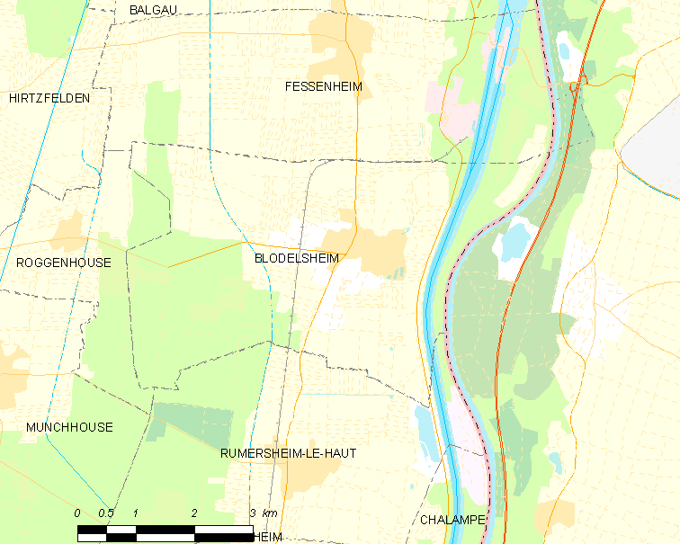 Map of French municipality